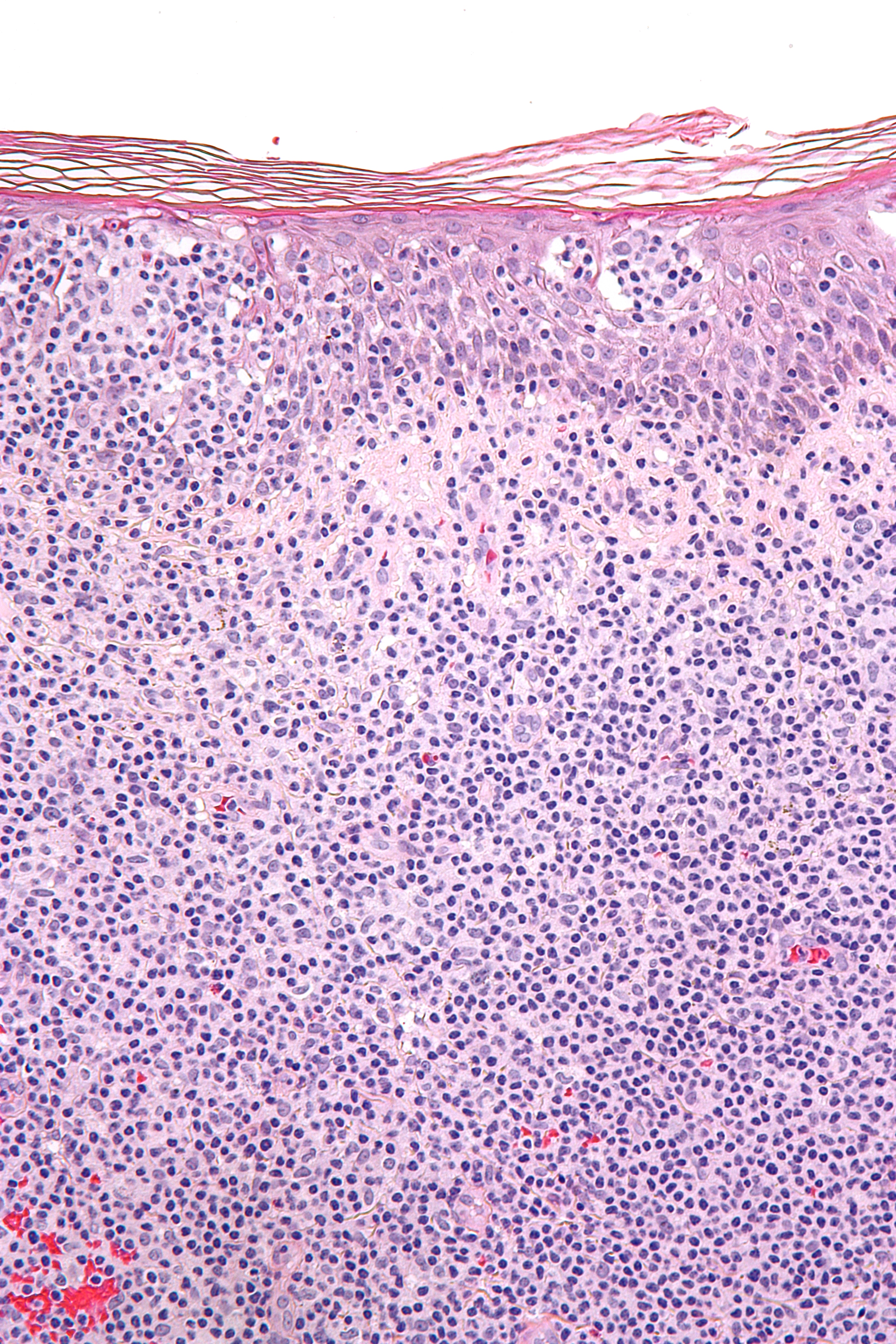 High magnification micrograph of cutaneous T-cell lymphoma, abbreviated CTCL. H&E stain. Features: Nests of lymphocytes in the epidermis; "Pautrier microabscesses". Single lymphocytes in epidermis; "lymphocyte exocytosis". Short linear arrays of lymphocytes along the basal layer of the epidermis; "epidermotropism". Related images Intermed. mag. High mag. Very high mag.